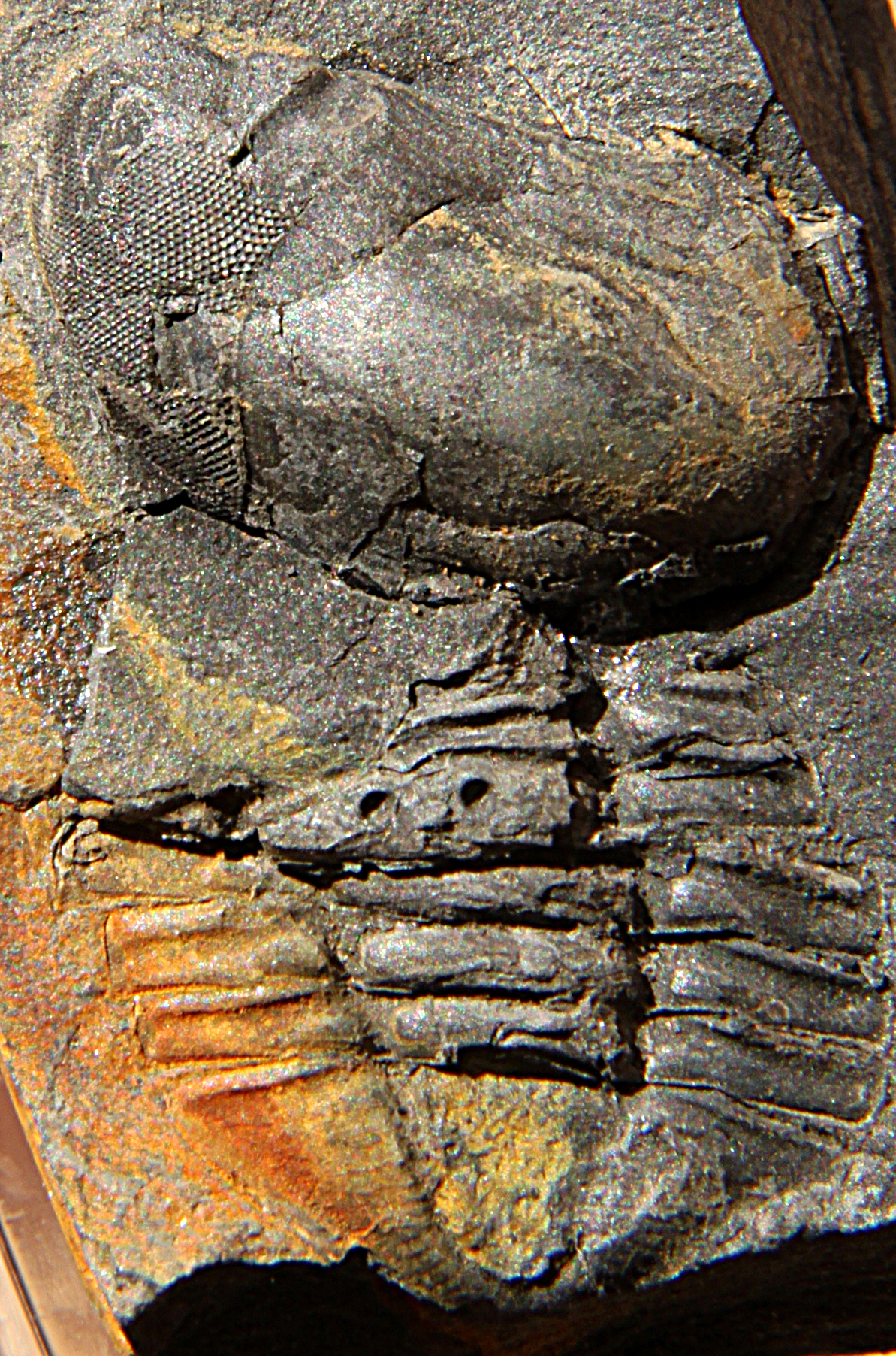 a Pricyclopyge binodosa trilobite, Order Asaphida, Family Cyclopygidae, 24mm long, collected from the Hopes Shales, near Minsterly, Shropshire, UK, from the Middle Odovician (Llanvirn).